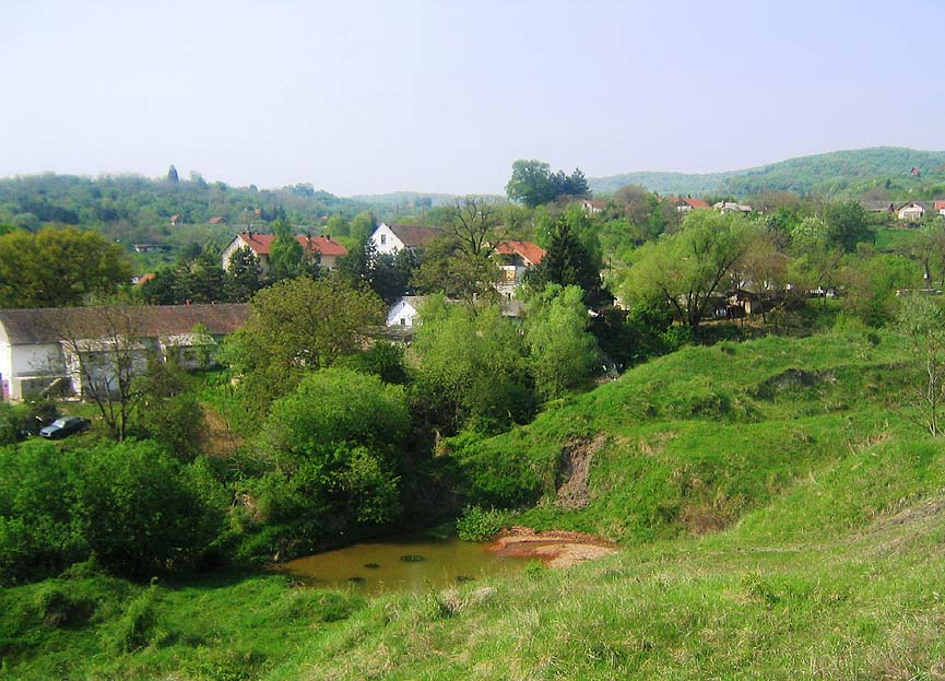 Panoramic view of Vrdnik near Irig, Vojvodina, Serbia